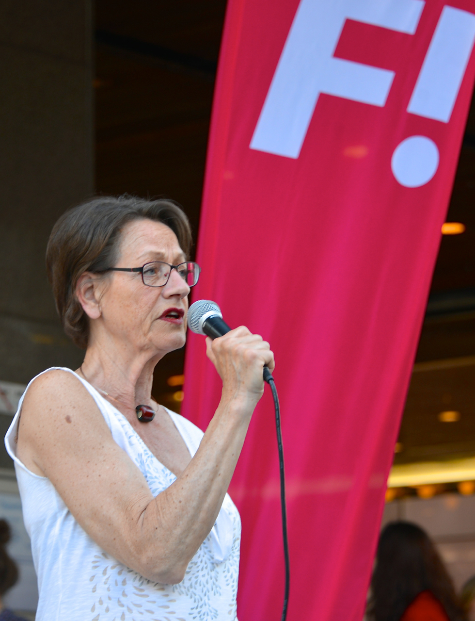 Party leader Gudrun Schyman, Feminist Initiative, holding squares meeting at Sergel's Square in Stockholm for the European elections in May 2014.